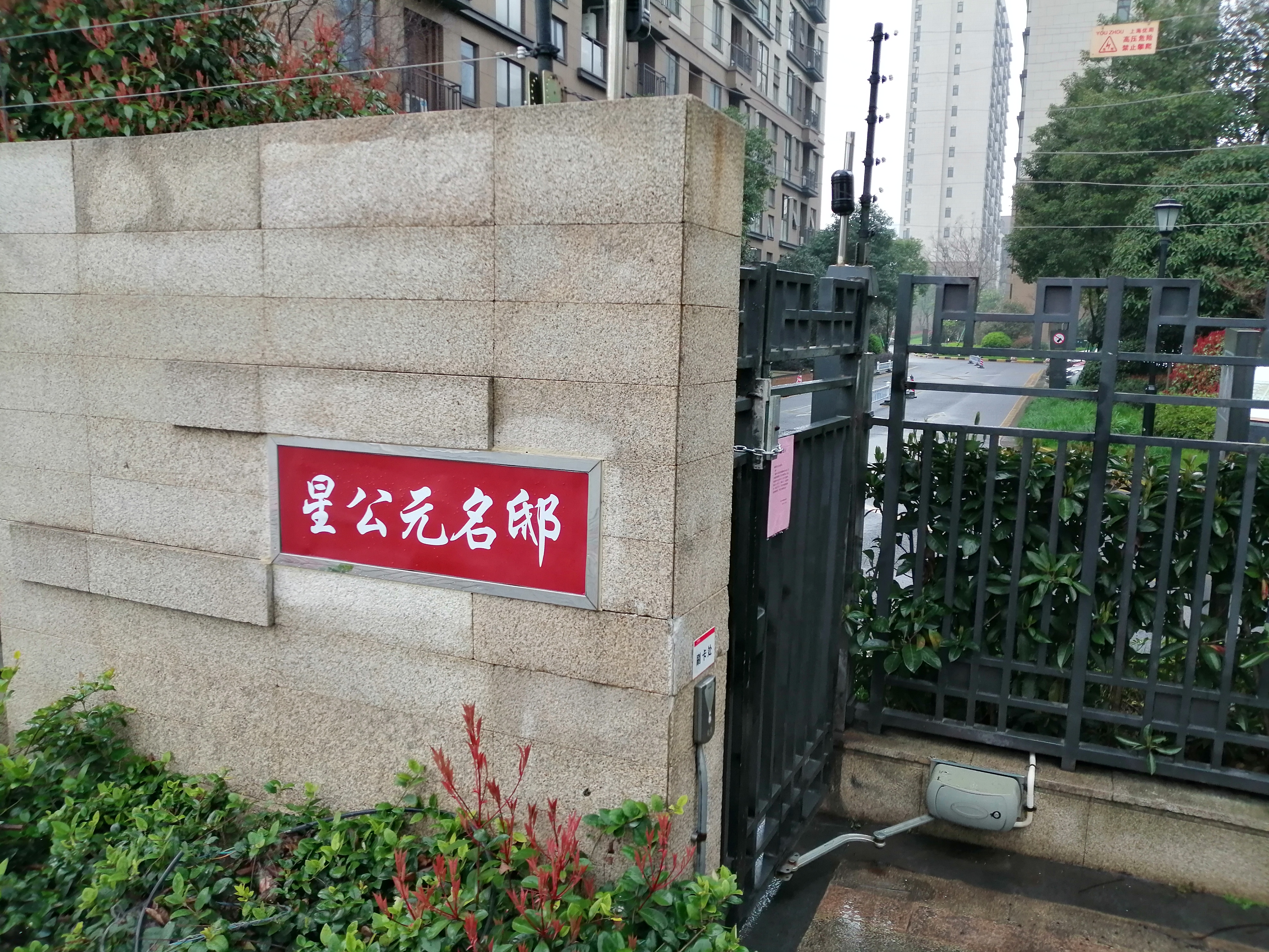 Xinggongyuan Mingdi, a residential area located in Suzhou Induatrial Park. The residential area has five confirmed cases of COVID-19, and the east gate is closed during this outbreak.